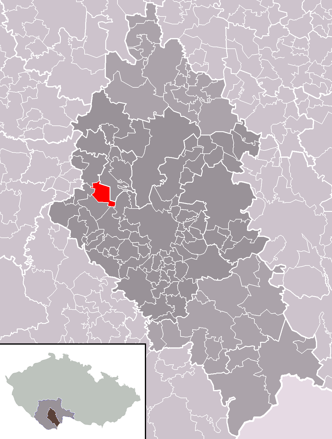 Location of Břehov municipality within České Budějovice District and administrative area of České Budějovice as a Municipality with Extended Competence.